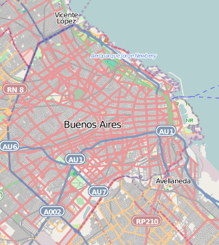 This map of Buenos Aires was created from OpenStreetMap project data, collected by the community. This map may be incomplete, and may contain errors. Don't rely solely on it for navigation.